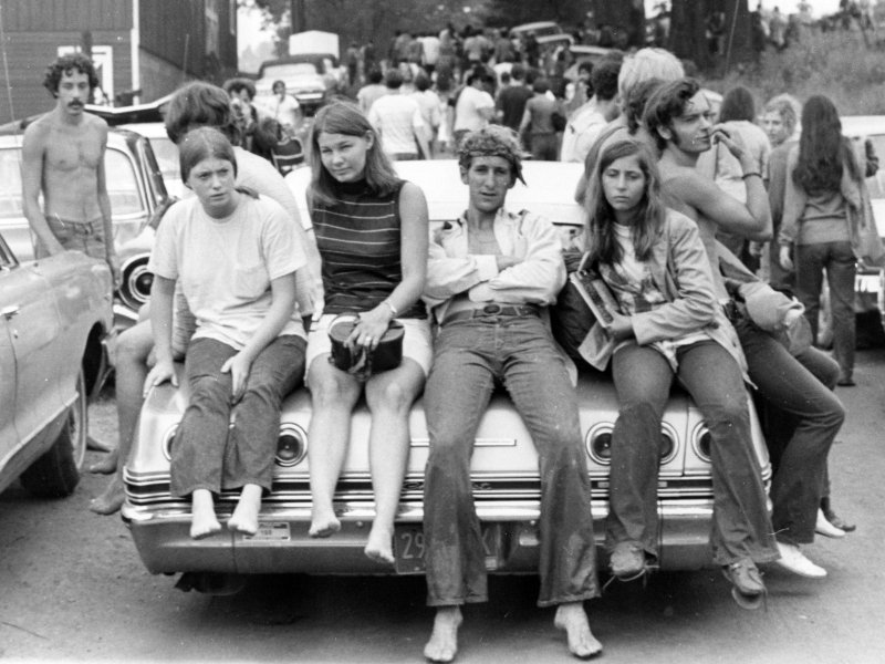 This photo was taken near the Woodstock music festival on August 18, 1969.